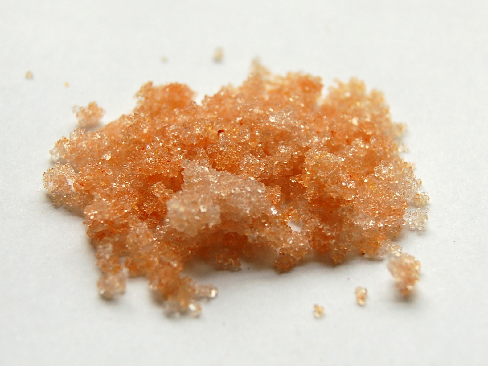 An old sample of iron(III) nitrate nonahydrate, possibly containing impurities as the usual colour is pale purple.